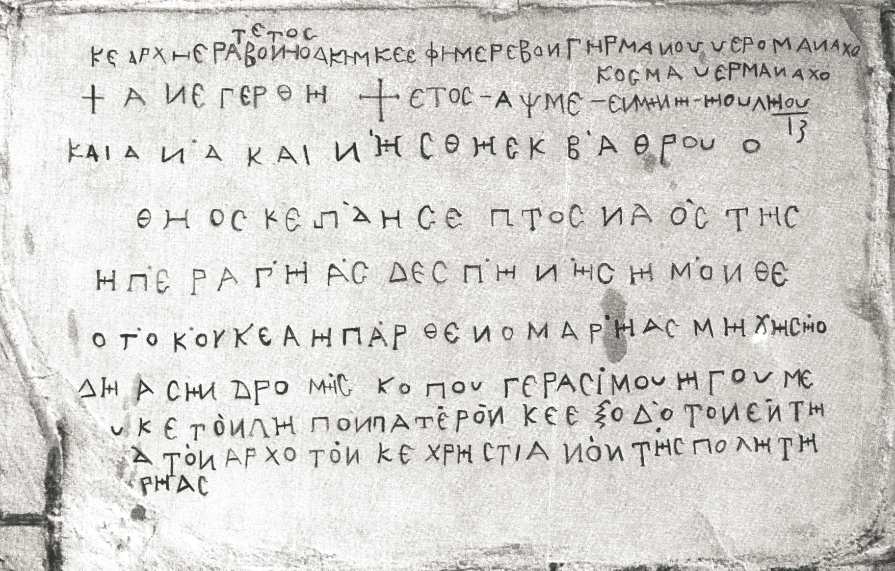 Panagia Melissiou Inscription 1745